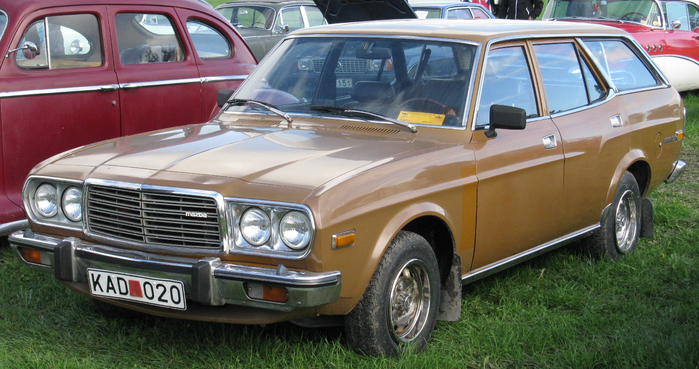 1976 Mazda 929 Combi, chassis no. LA2VV146185. 80PS.